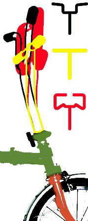 Handlebars for Brompton Bicycles:Black type M, Yellow type S, and red type P